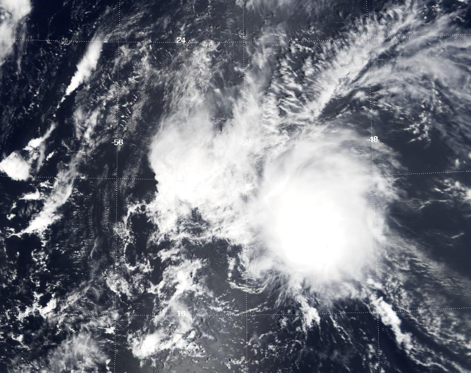 This image shows Tropical Storm Ernesto in the Tropical Atlantic with winds of 40 mph. Ernesto would dissipate the next day.